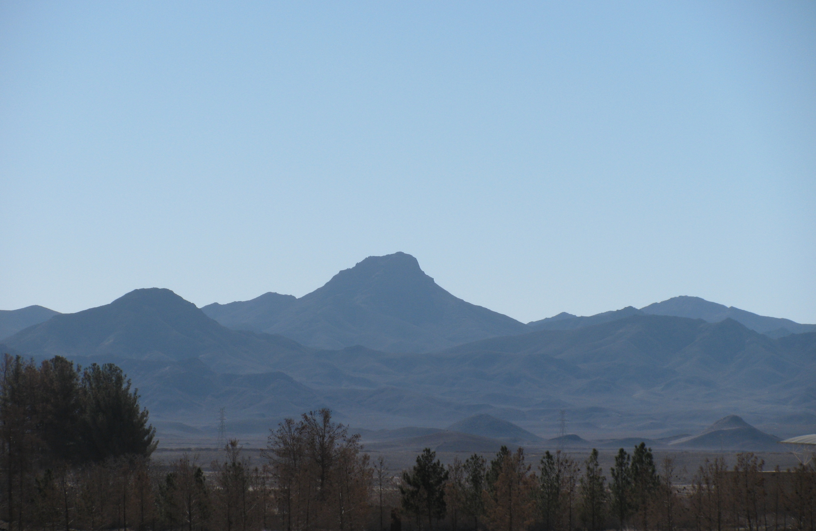 Kuh-e-Ghal'e, near Ferdows, one of the main camps of Ismailis in the thirteenth century.